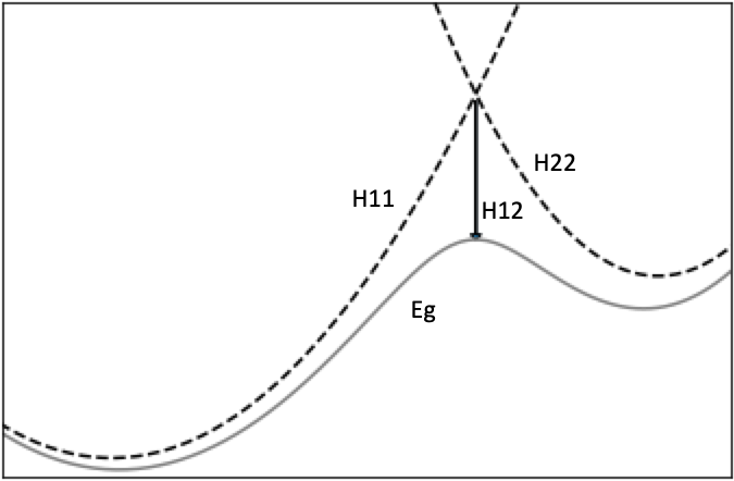 Schematic illustration of EVB parameterization.